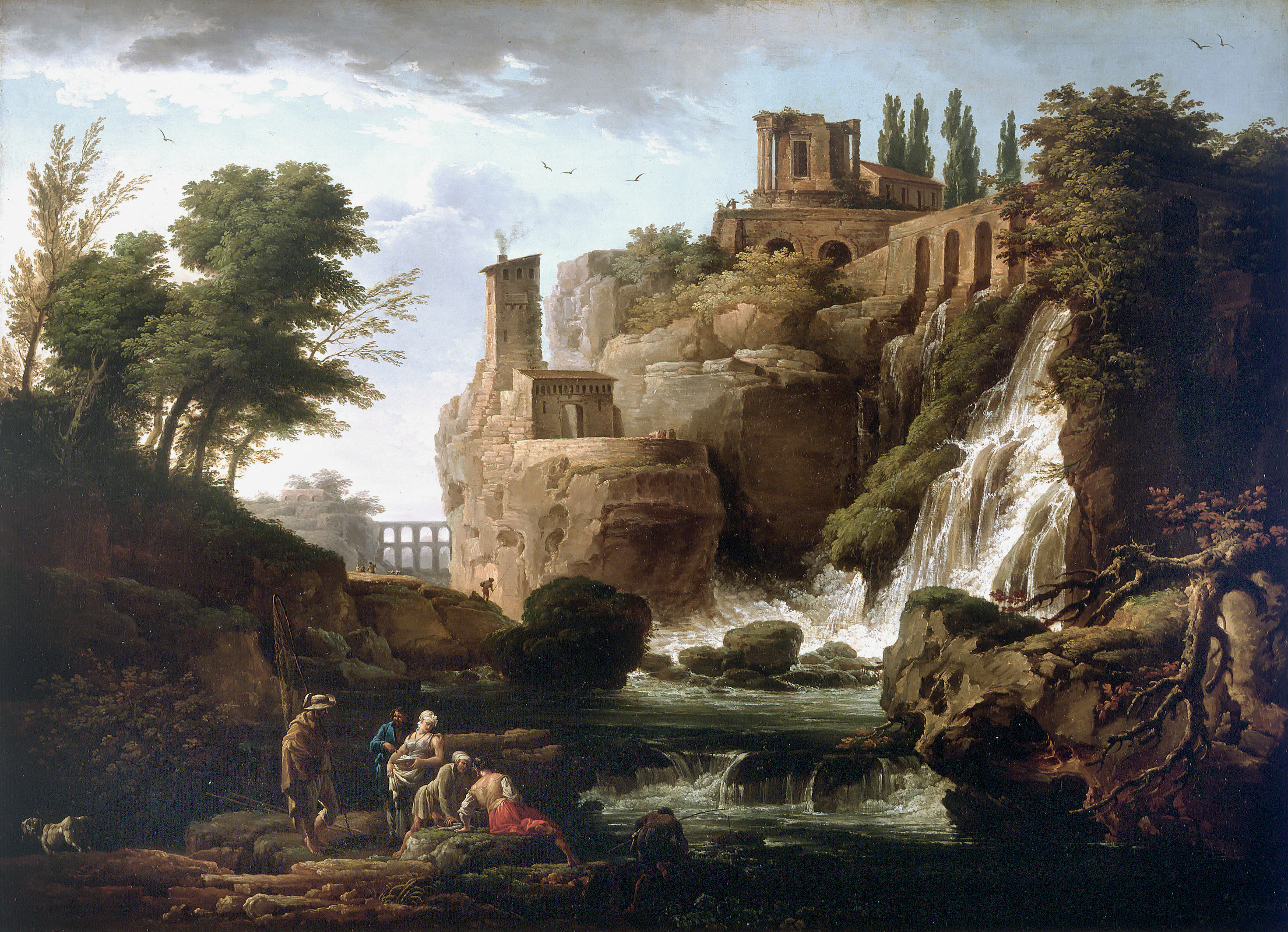 Tivoli landscapes (1748) by Joseph Vernet